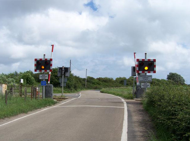 Butolph's Bridge Road level crossing on the Romney, Hythe and Dymchurch Railway.